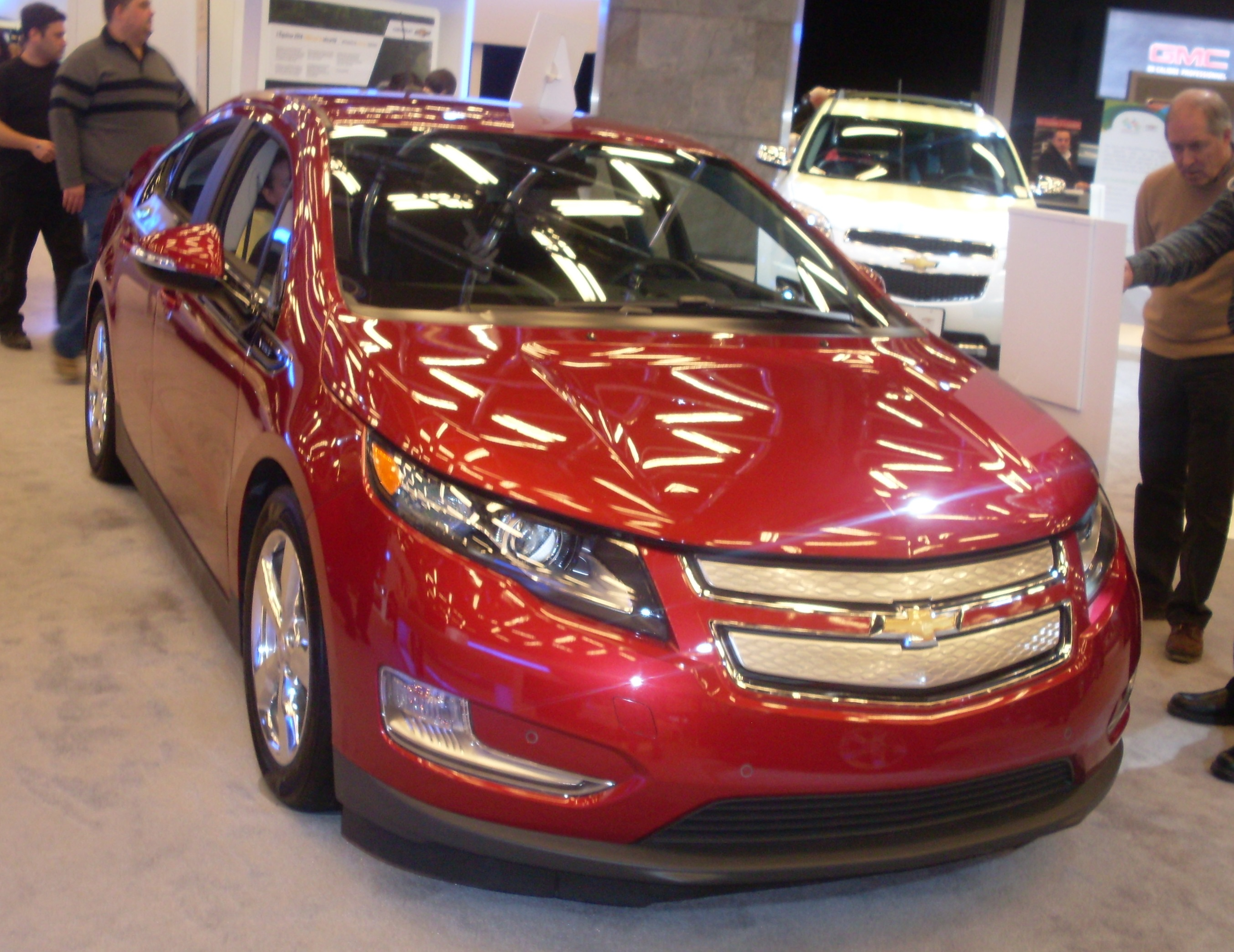 2014 Chevrolet Volt photographed in Montreal, Quebec, Canada at the 2014 Montreal International Auto Show.